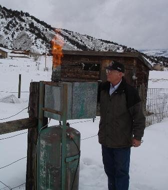 Ground Based Silver Iodide Generator, Central Colorado, with operator